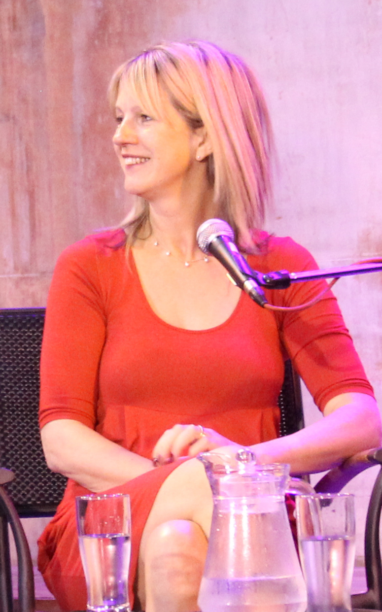 Julie Myerson at Open Book Festival, Cape Town.